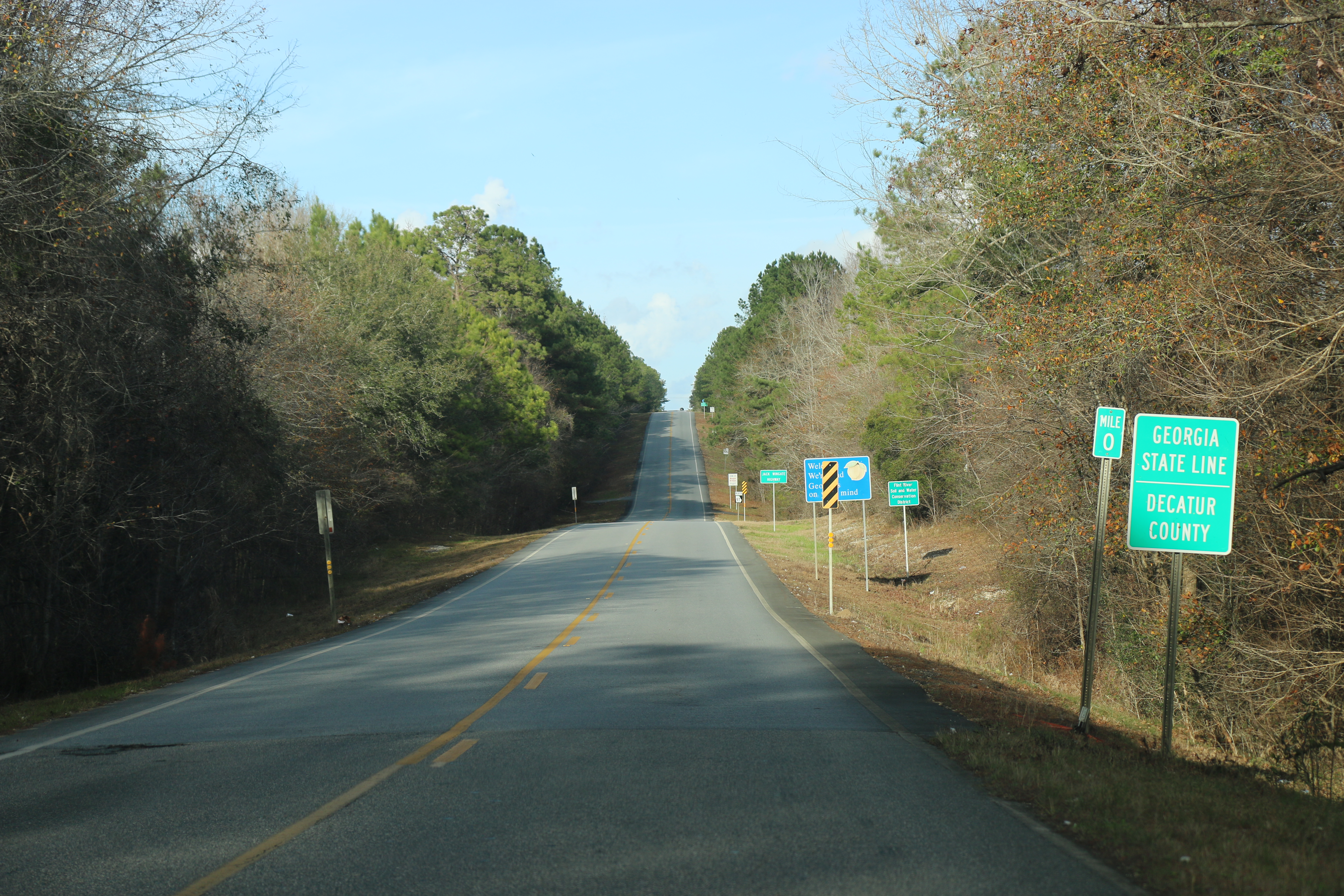 The welcome sign for Georgia in Decatur County on State Route 97, entering from Florida.